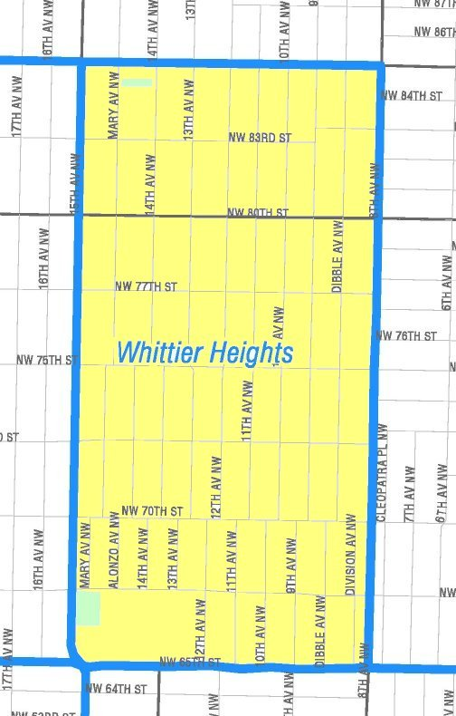 Map of the Whittier Heights portion of Seattle's Ballard neighborhood. Like the other maps from the Seattle City Clerk's Neighborhood Map Atlas, this is not an official map; in particular, borders are not official. Disclaimer: The Seattle Neighborhood Atlas, which the Seattle Clerk's Office has placed in the public domain (as confirmed by OTRS ticket 2008033110016048) contains some general commentary on the maps, "About Maps", which should typically be linked as an accompaniment to these maps to (in their words) "minimize the numerous 'complaints' or comments by users who feel it necessary to point out how the Clerk's Office is 'wrong' about a certain section of town." In particular, "About Maps" says that the atlas "is designed for subject indexing of legislation, photographs, and other documents in the City Clerk's Office and Seattle Municipal Archives" and "is not designed or intended as an 'official' City of Seattle neighborhood map. There are many different ideas of what neighborhood districts exist in Seattle and what their names are…"